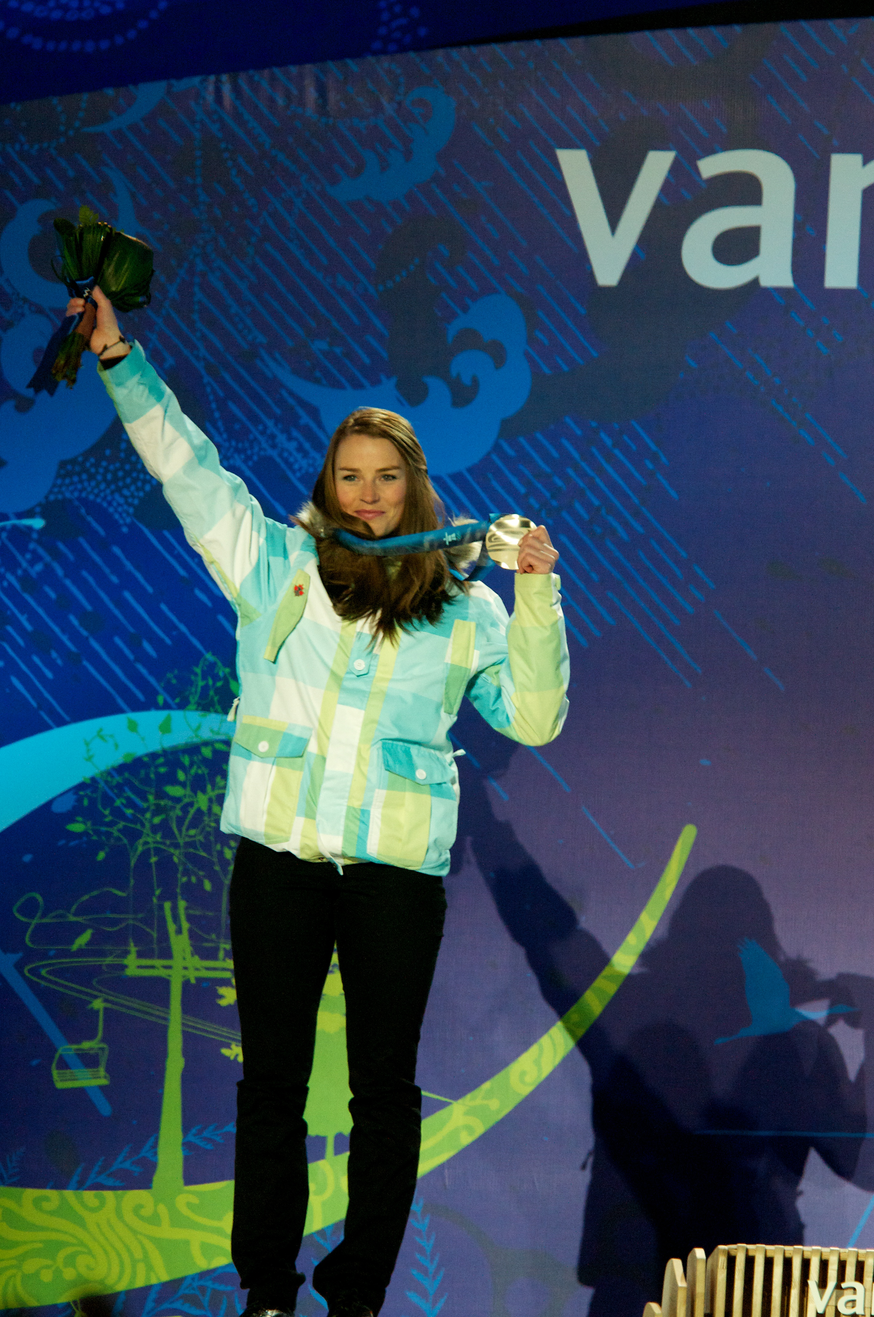 Tina Maze with olympic silver at 2010 Winter Olympics.